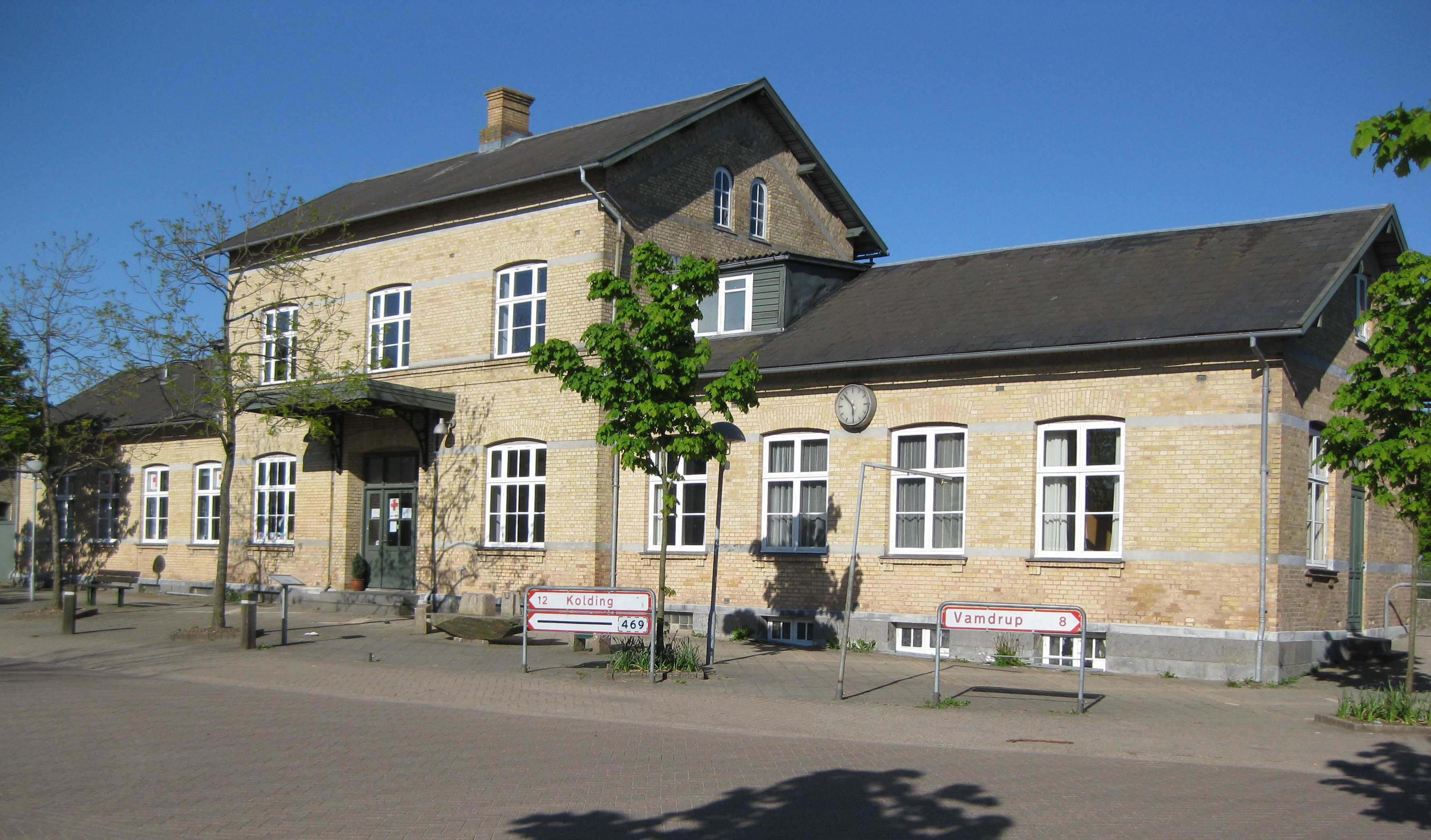 The train station building "Lunderskov Stationsbygning" in the small town "Lunderskov". The town is located in Kolding Kommune, South-Central Jutland, Denmark.